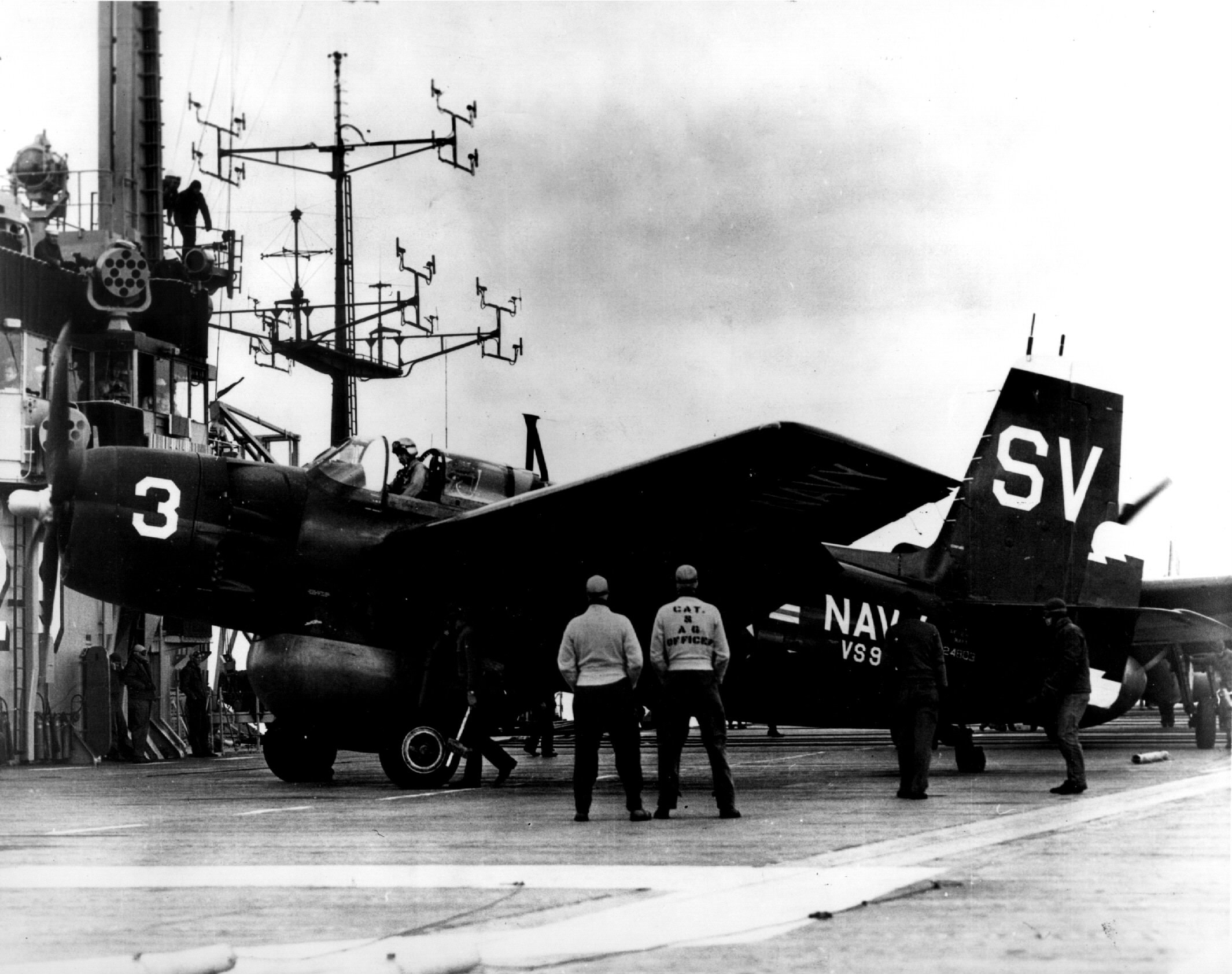 A U.S. Navy Grumman AF-2W Guardian of Anti-Submarine Squadron 931 (VS-931) on the deck of the light aircraft carrier USS Bataan (CVL-29), circa 1951. The squadron had been established as U.S. Naval Reserve composite squadron VC-931 in 1948. It was activated as VS-931 on 1 March 1951 and redesignated VS-20 on 4 February 1953. It was already disestablished again in 1957.